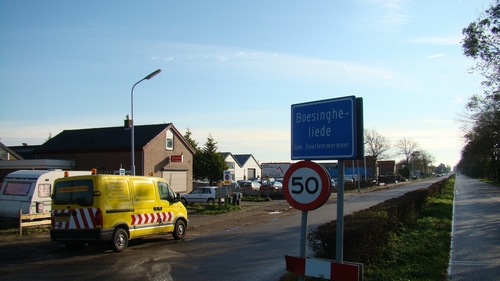 Boesingheliede